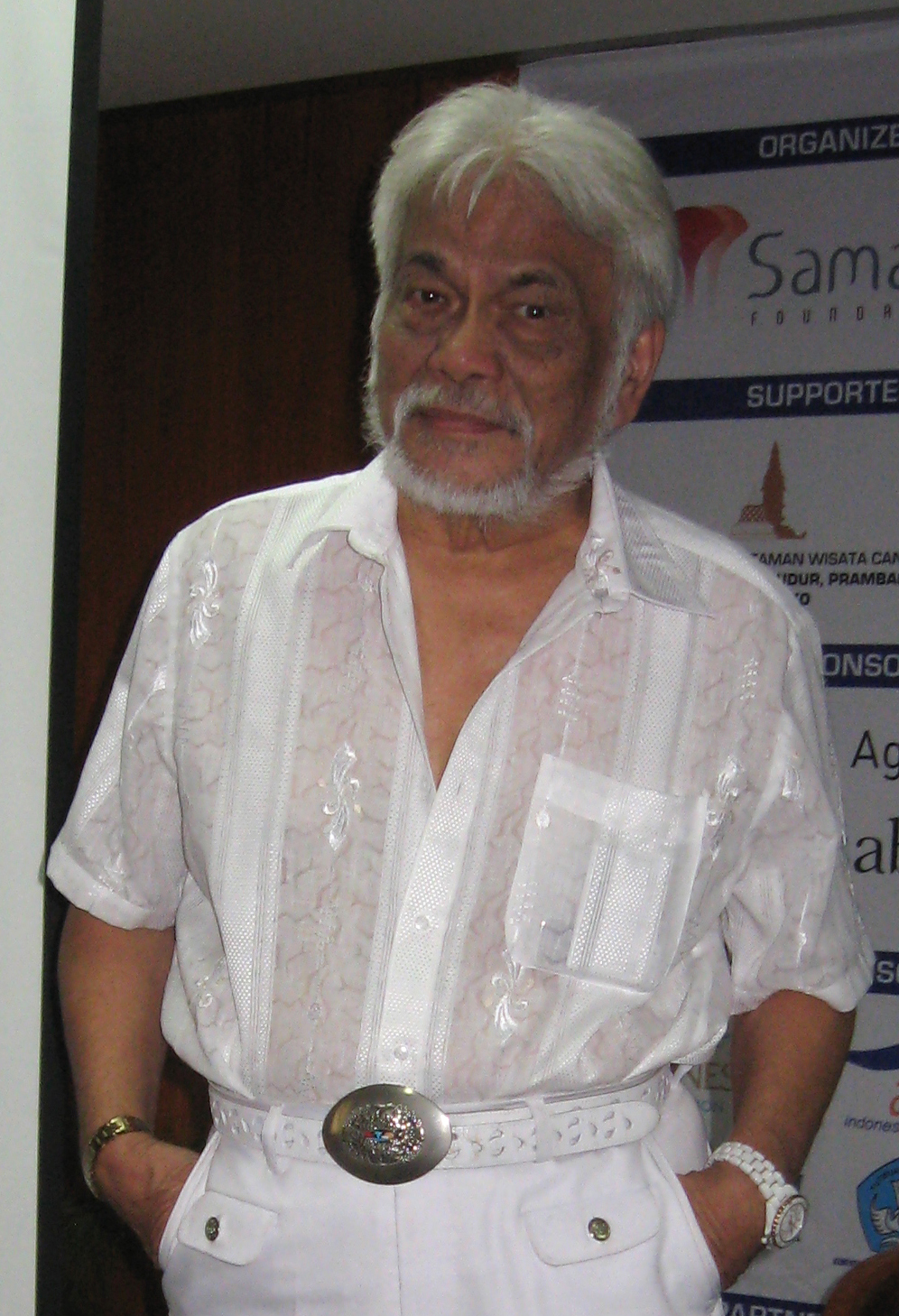 Crop of File:Remy Sylado 3.JPG